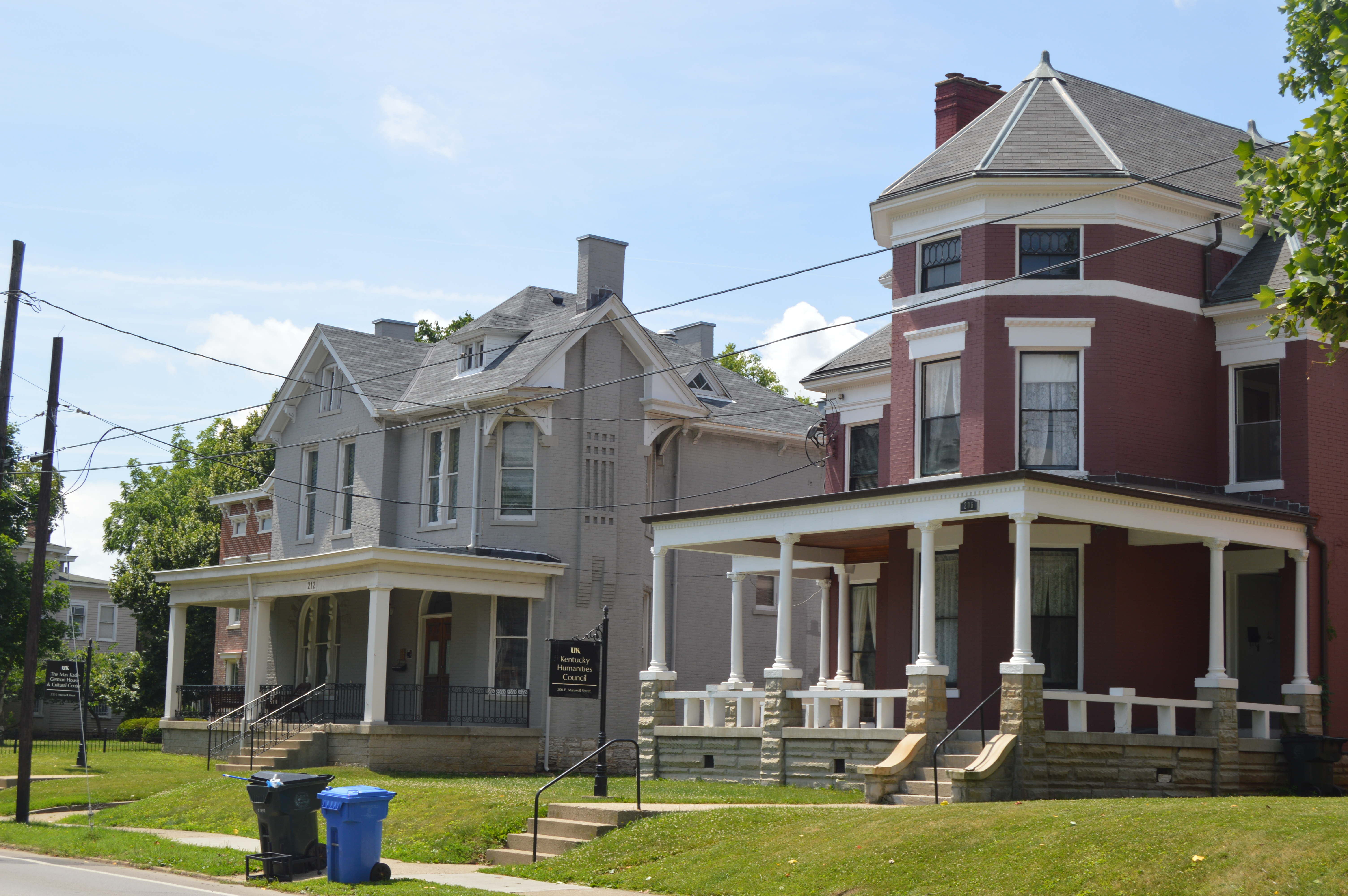 Houses at 212 (left, built 1890) and 206 (right, built 1898) E. Maxwell Street in Lexington, Kentucky, United States. Now home to the Max Kade German House and Cultural Center and the Kentucky Humanities Council respectively, both are part of the Southeast Lexington Residential and Commercial District, a historic district that is listed on the National Register of Historic Places.